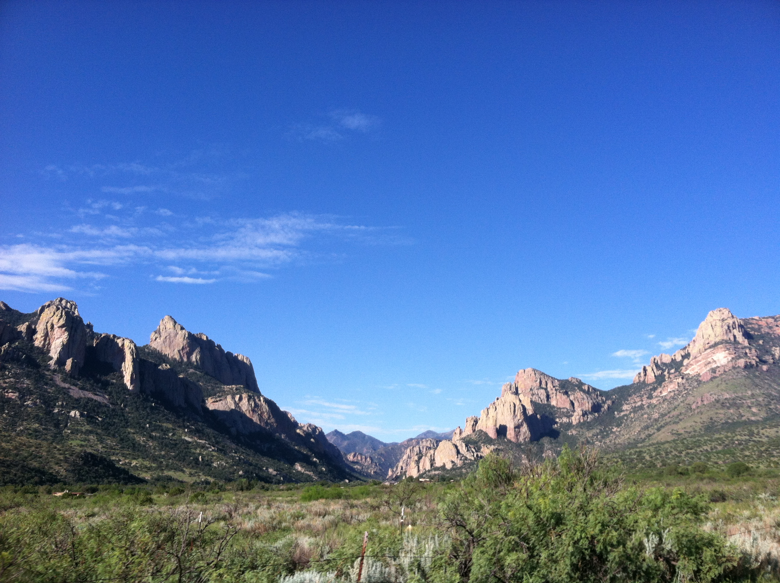 Entrance to Rhyolite Canyon and the Chiricahua National Forest near Portal, AZ.